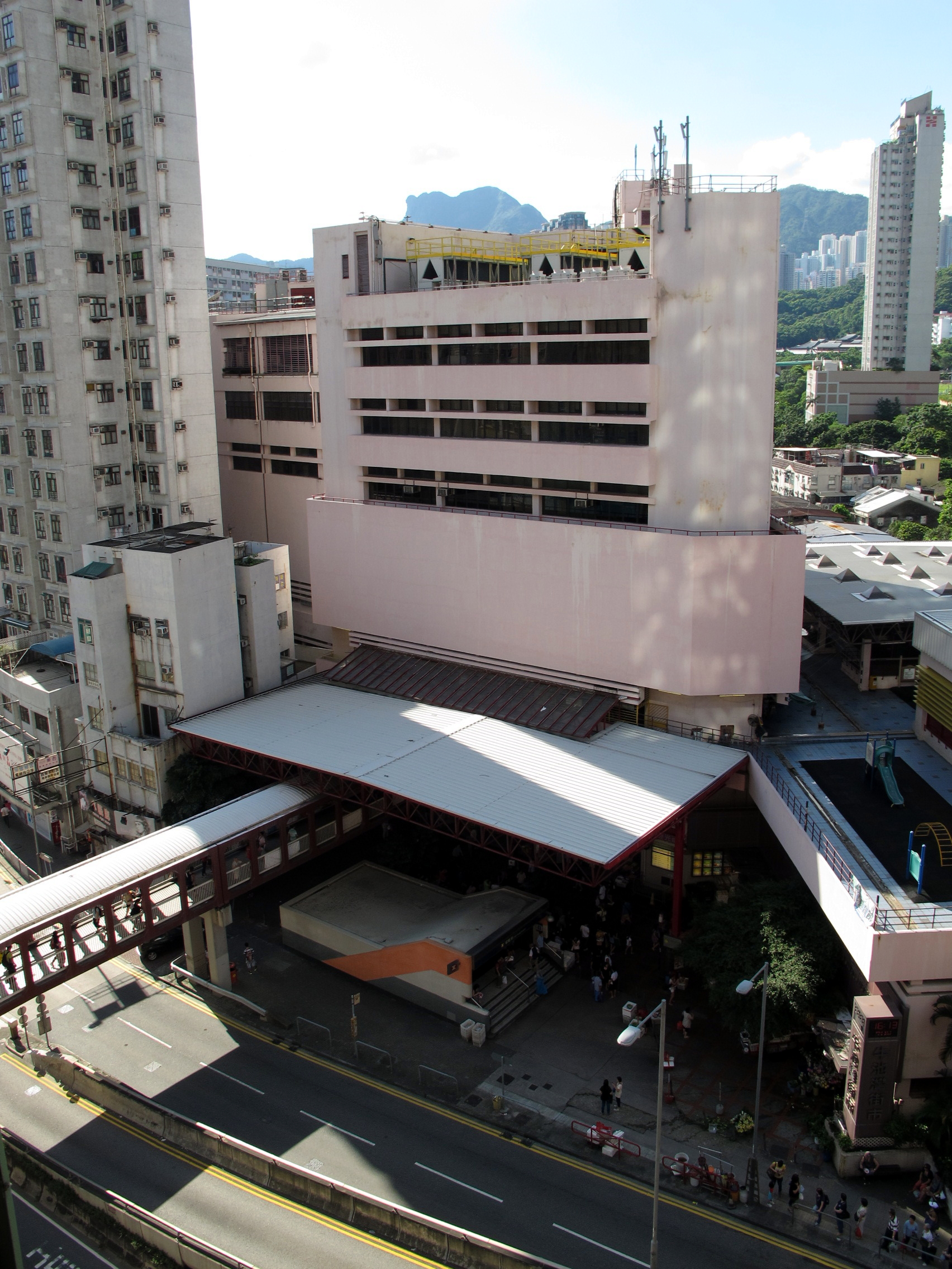 Ngau Chi Wan Municipal Service Building